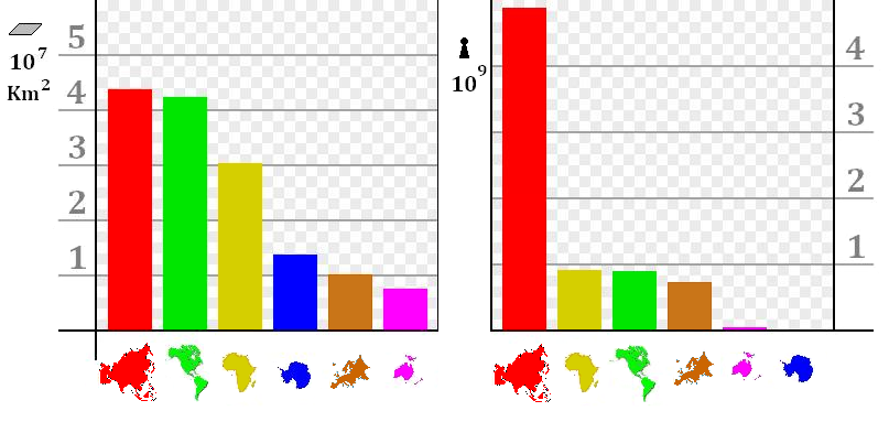 A statistic synopsis about continental surface area and population